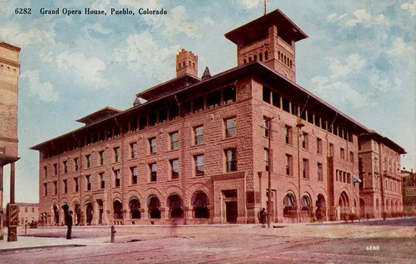 1912 postcard depicting the Grand Opera House in Pueblo, Colorado, designed by the firm of Adler & Sullivan and destroyed by fire in 1922